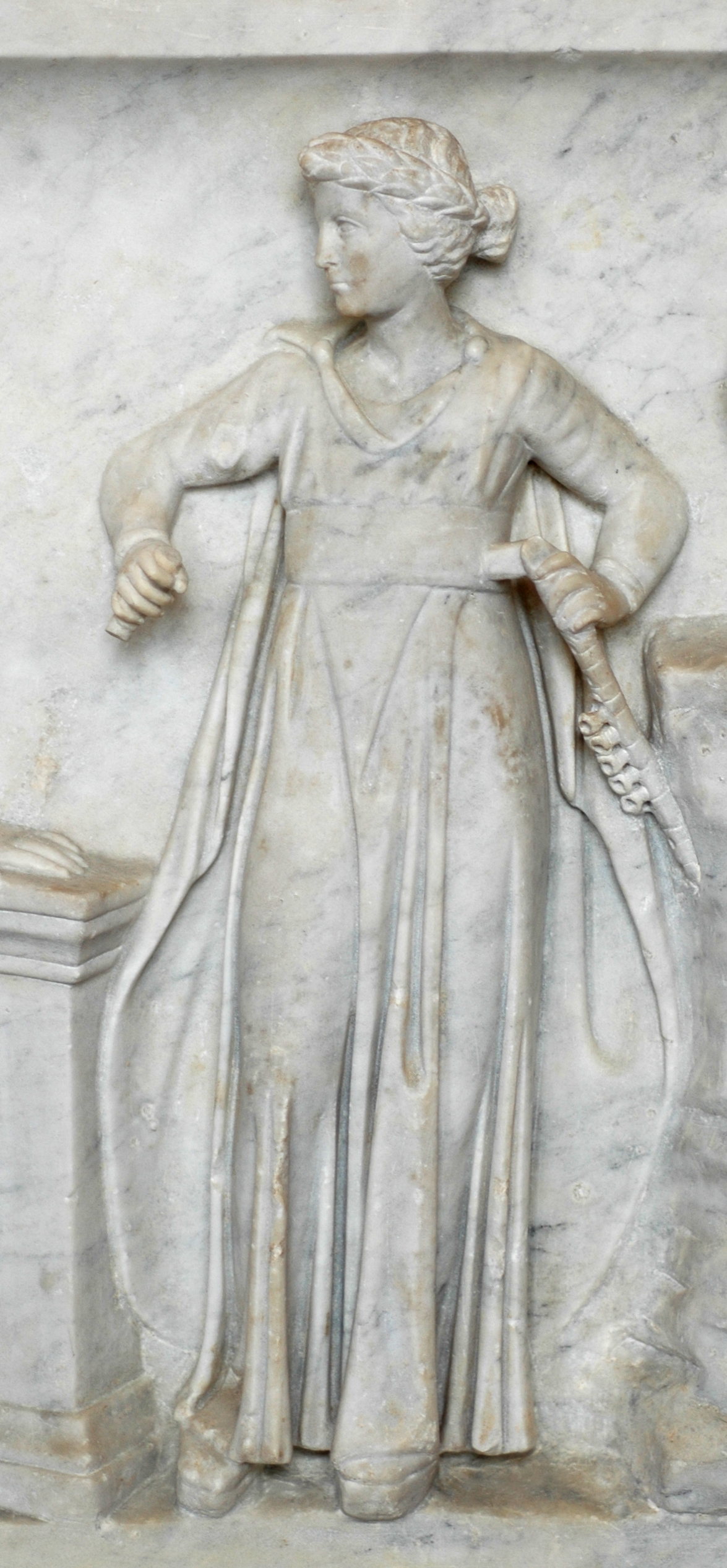 Euterpe, muse of music, carrying a flute. Detail from the “Muses Sarcophagus”, representing the nine Muses and their attributes. Marble, first half of the 2nd century AD, found by the Via Ostiense.